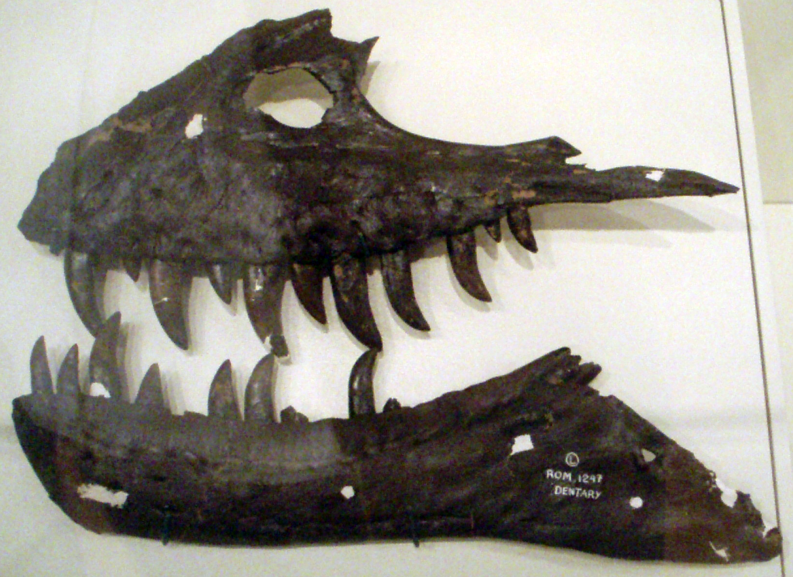 Partial jaw of an Gorgosaurus[1] (ROM 1247 was at one point classified as Albertosaurus sarcophagus), on display at the Royal Ontario Museum, Toronto.